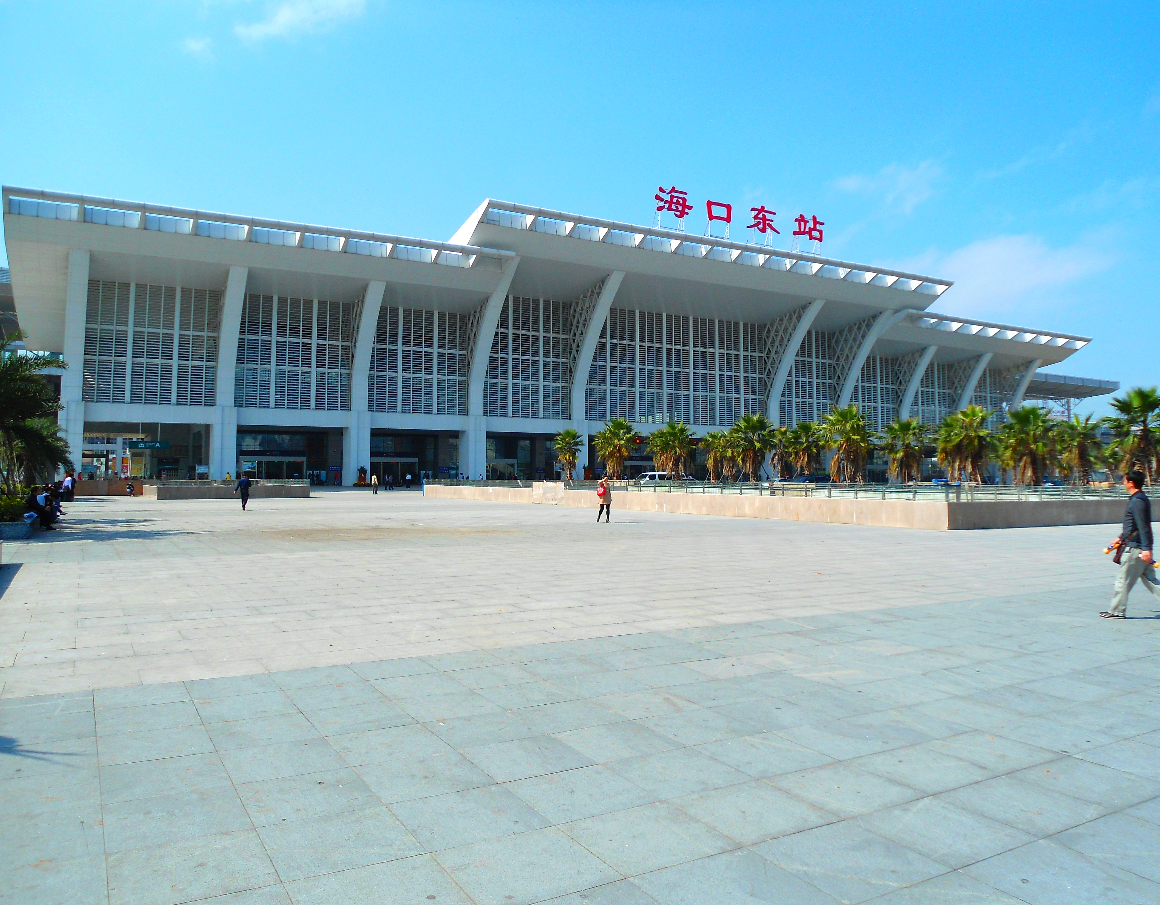 Haikou East Railway Station of the Hainan Eastern Ring Railway, front view